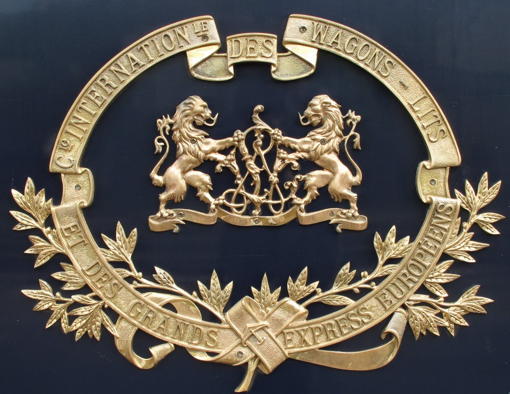 logo CIWL (c)wagons-lits diffusion, Paris